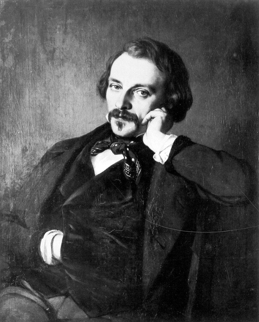 Portrait of the german painter Jakob Fuerchtegott Dielmann (1809–1885)